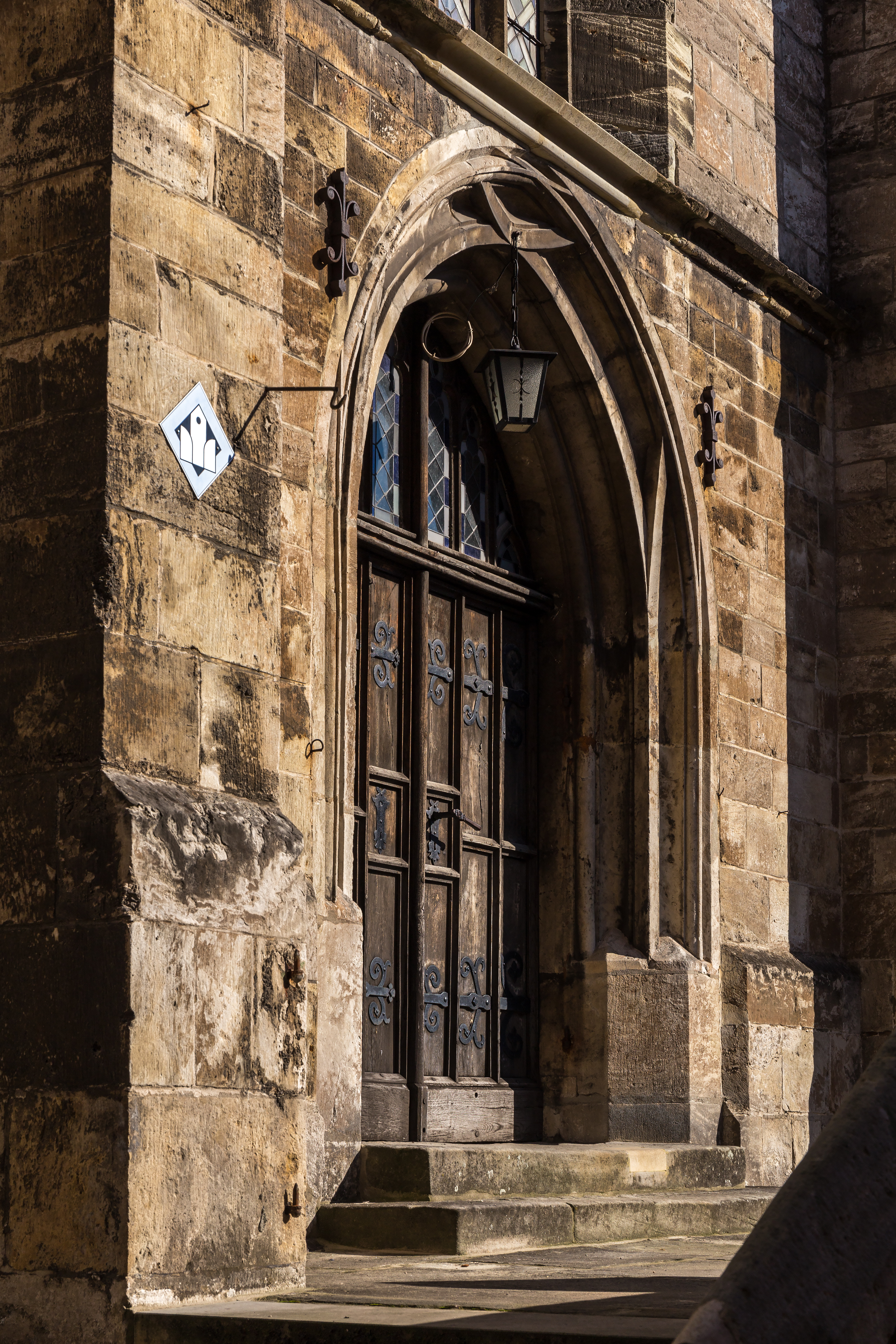 Entrance of the church of St. Margaret (Ranis, Thuringia, Germany).